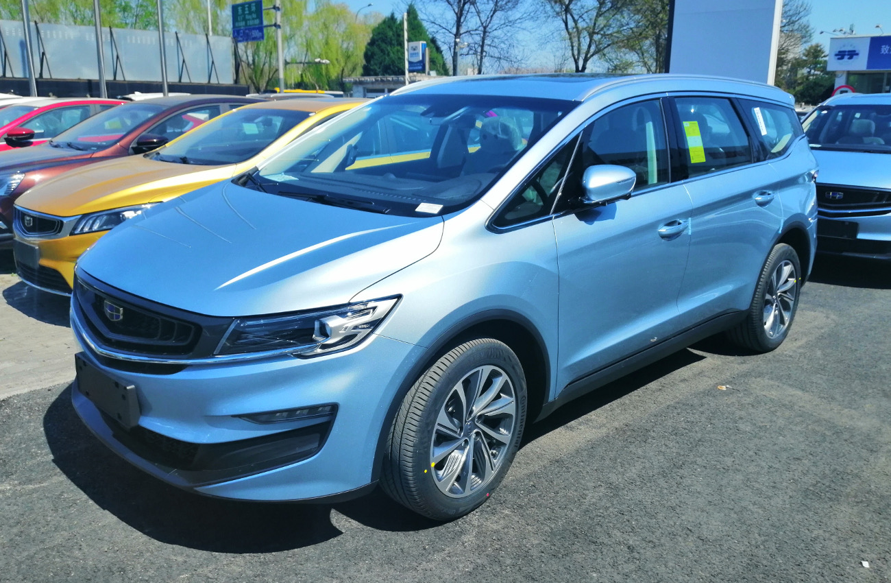 Geely Jiaji photographed in Beijing, China.